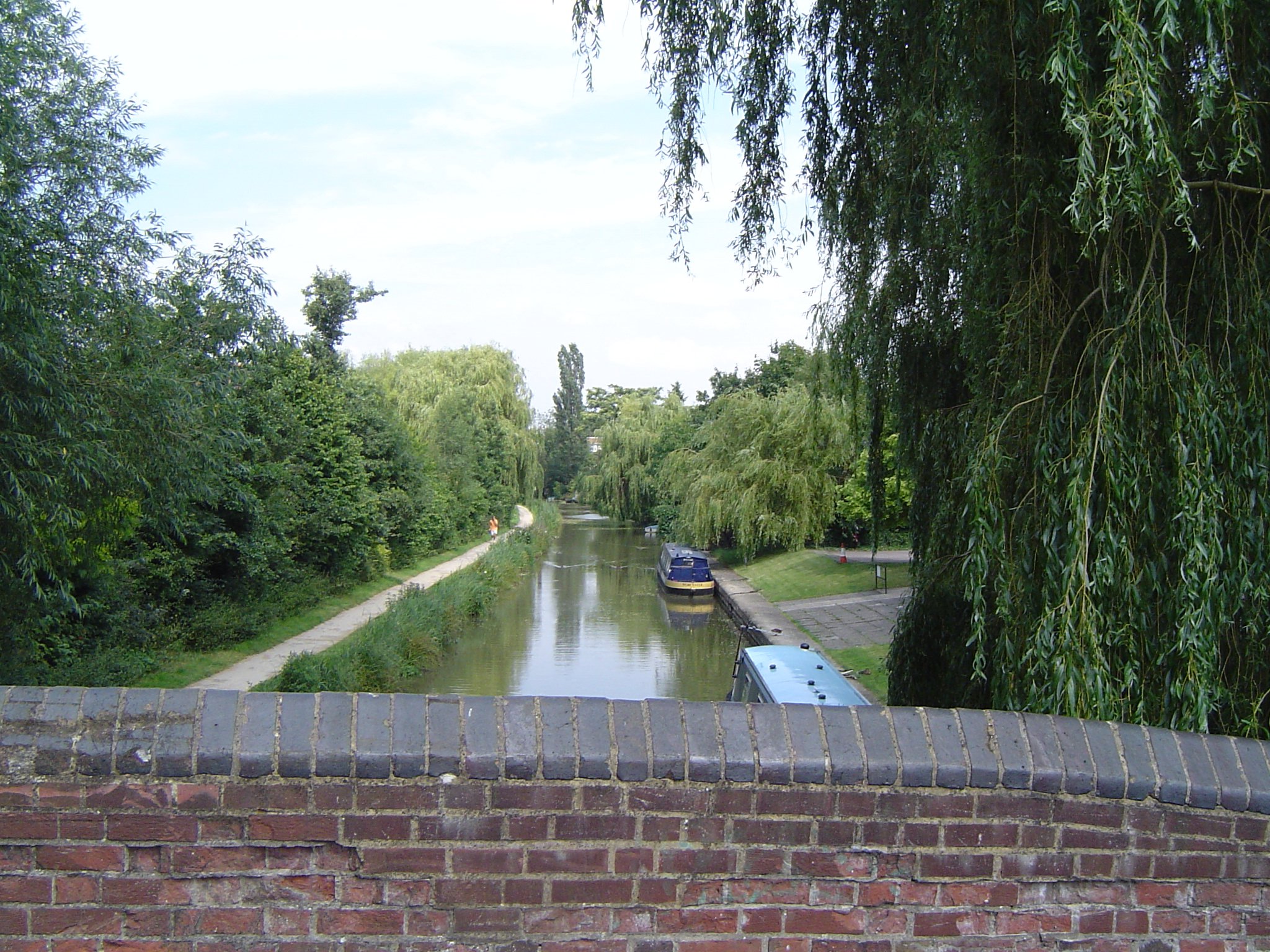 View north along the Oxford Canal from Oxford Canal Bridge 240, which carries Aristotle Lane